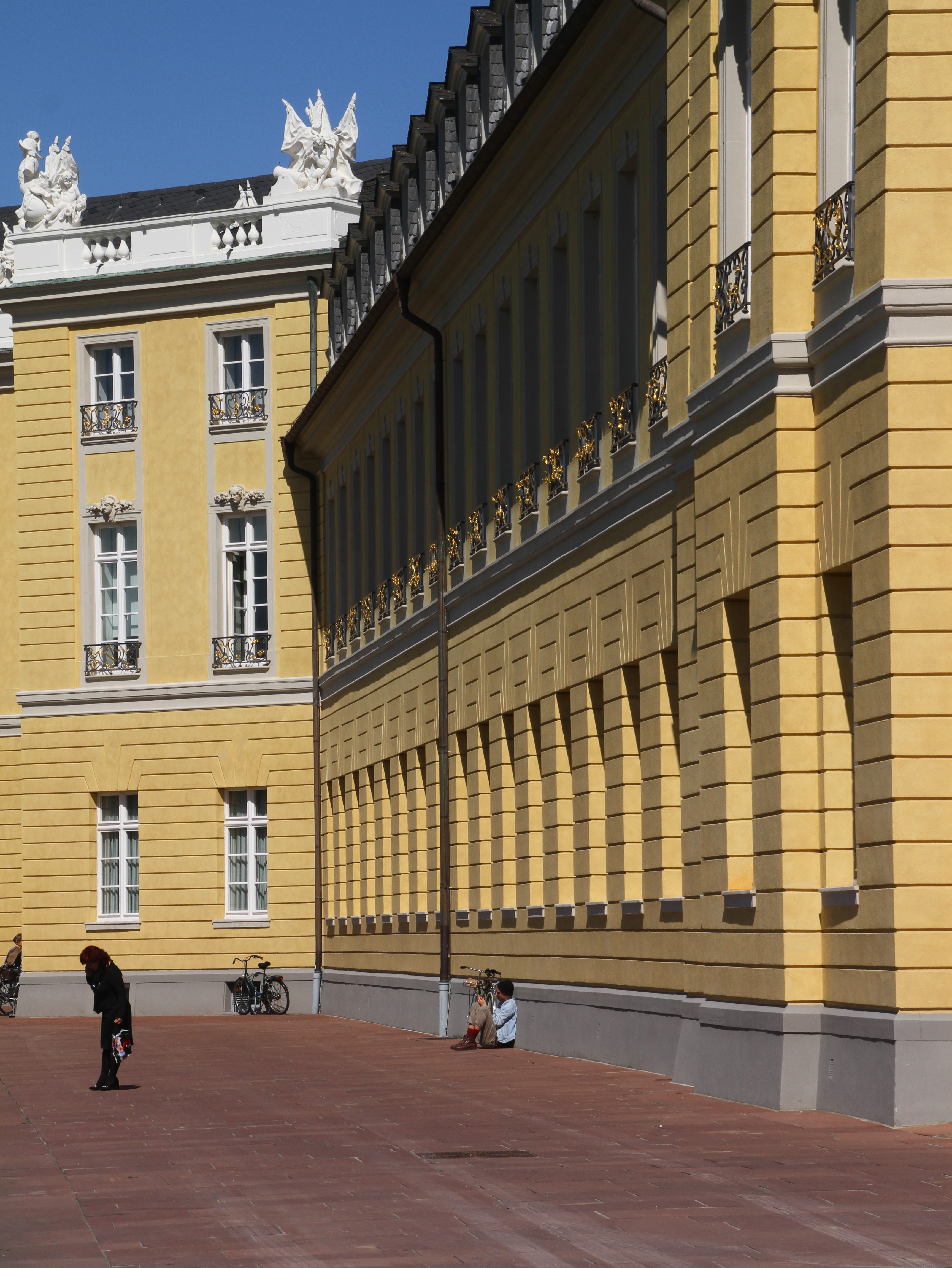 Karlsruhe Palace